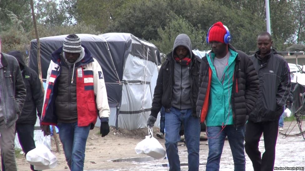 Sudanese migrants and/or refugees at the "jungle" refugee/migrant camp in Calais, France, Oct. 2015